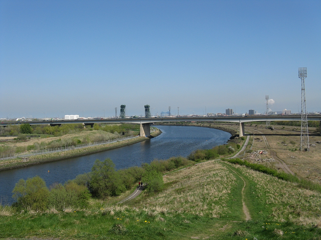 The Tees Viaduct as it carries the A19 across the River Tees. The photograph is taken from the viewing hill in Maze Park nature reserve.